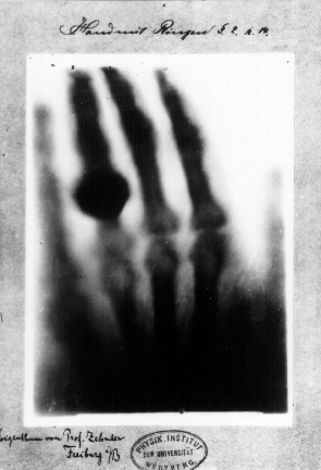 Hand mit Ringen (Hand with Rings): a print of one of the first X-rays by Wilhelm Röntgen (1845–1923) of the left hand of his wife Anna Bertha Ludwig. It was presented to Professor Ludwig Zehnder of the Physik Institut, University of Freiburg, on 1 January 1896.